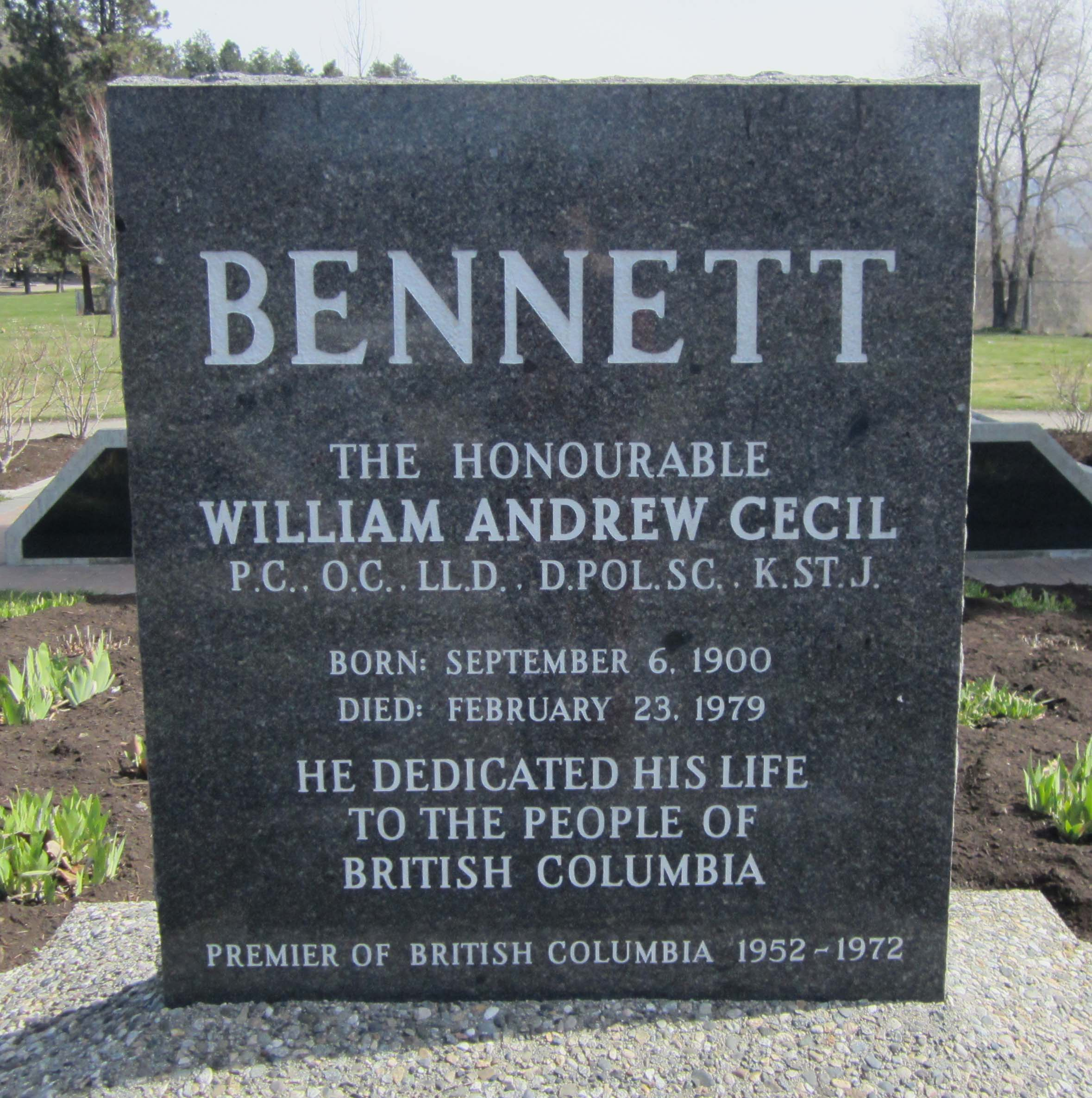 Tombstone of WAC Bennett taken at Kelowna Memorial Park Cemetery